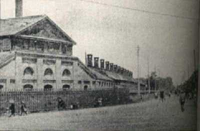 Tokyo Koishikawa Arsenal This photographic image was published before December 31st 1956, or photographed before 1946, under the jurisdiction of the Government of Japan. Thus this photographic image is considered to be public domain according to article 23 of old copyright law of Japan (English translation) and article 2 of supplemental provision of copyright law of Japan. To uploader: Please provide an image source.